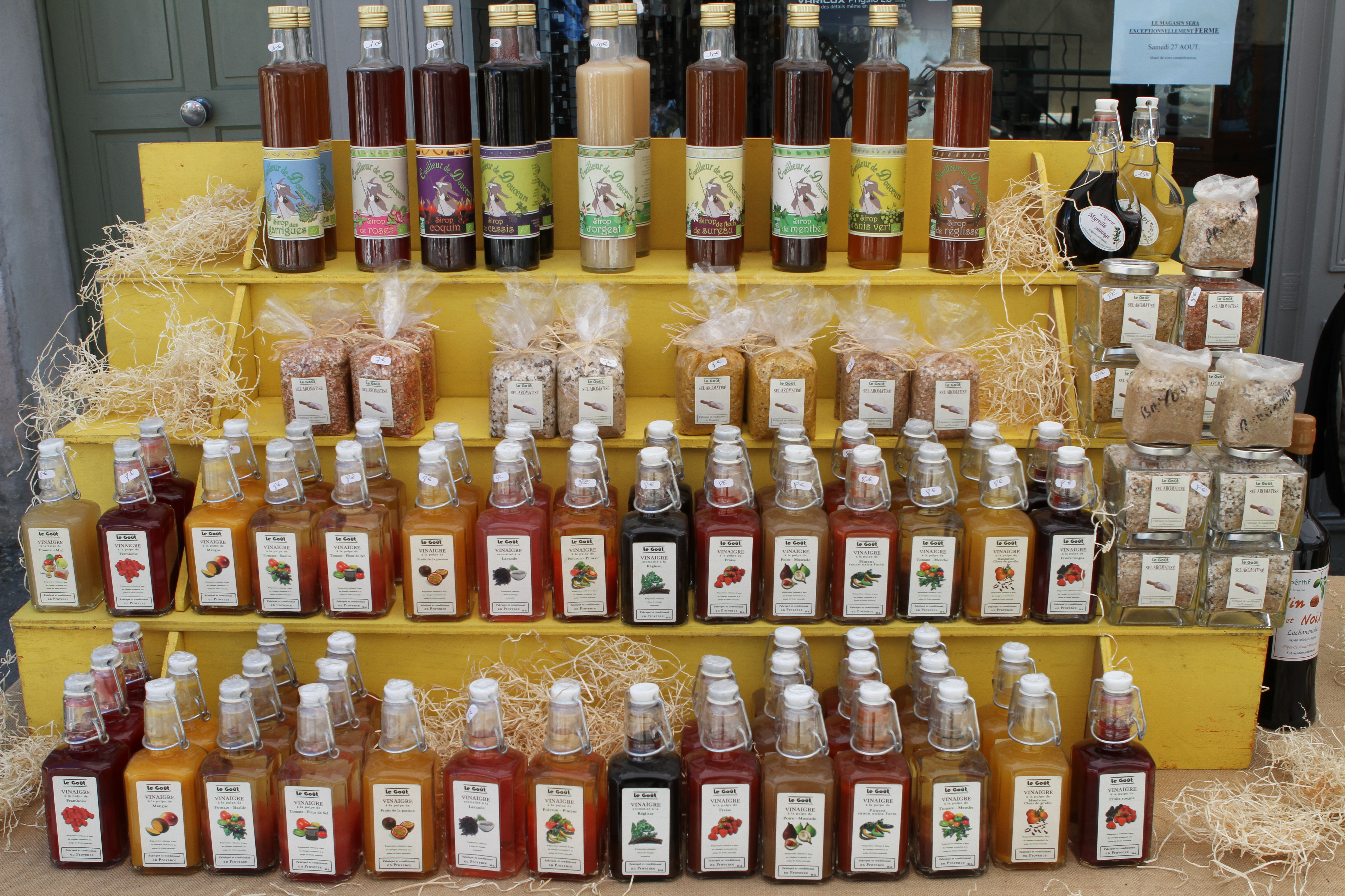 Renaissance fair of Éguilles (Bouches-du-Rhône, France).